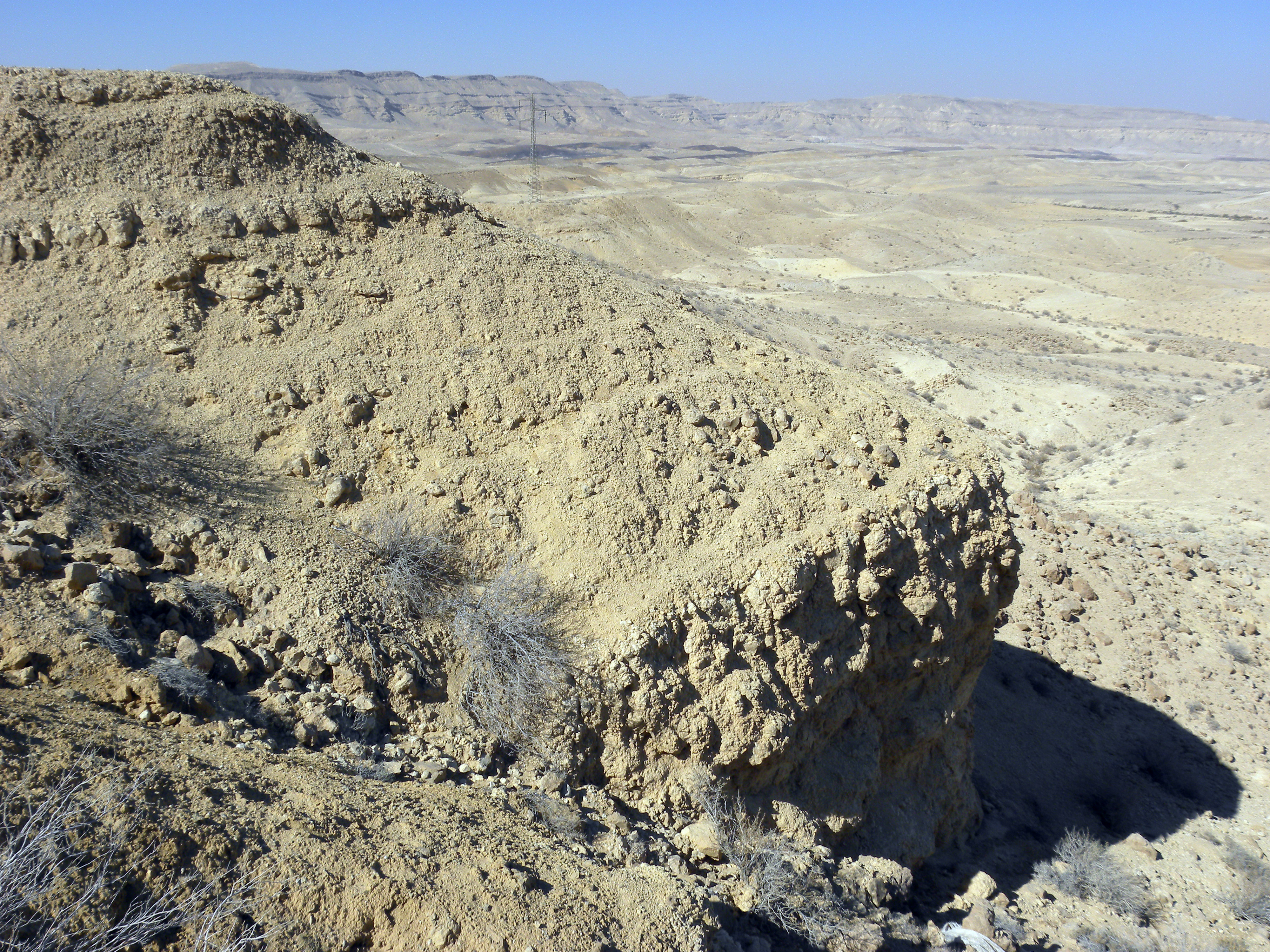 Matmor Formation (Jurassic, Callovian) exposed in Makhtesh Gadol, Israel. (Electricity pylon for scale).